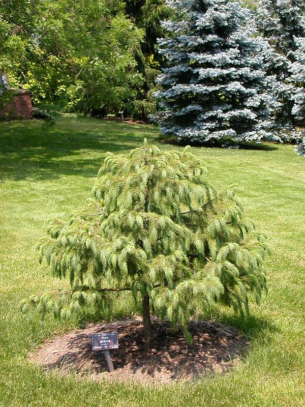 Picea smithiana (Morinda Spruce) at New York Botanical Garden